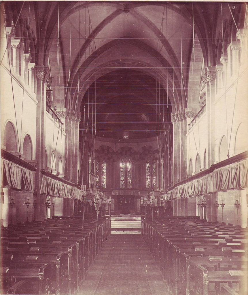 Church interior in a tropical setting. The hanging punkah's for ventilation are operated by an elaborate system of pulleys and ropes. Undated.